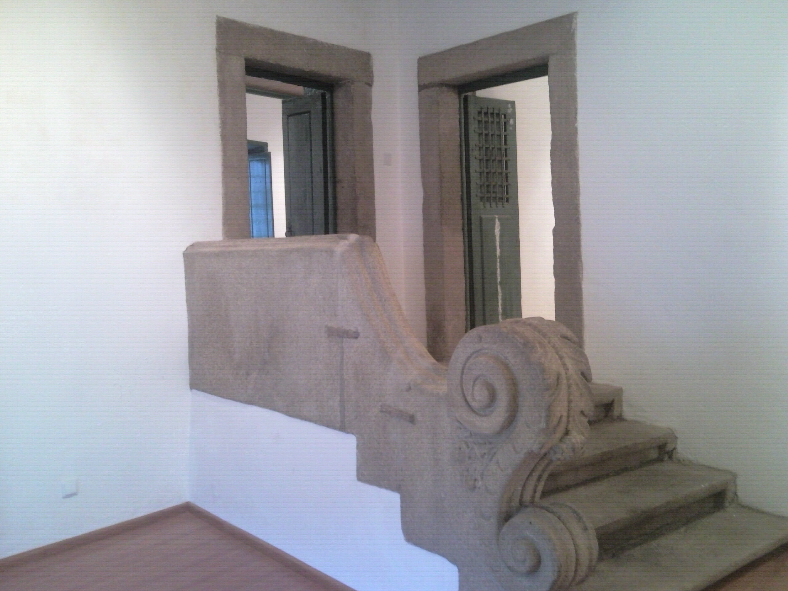 Cardosos' Palace Hall